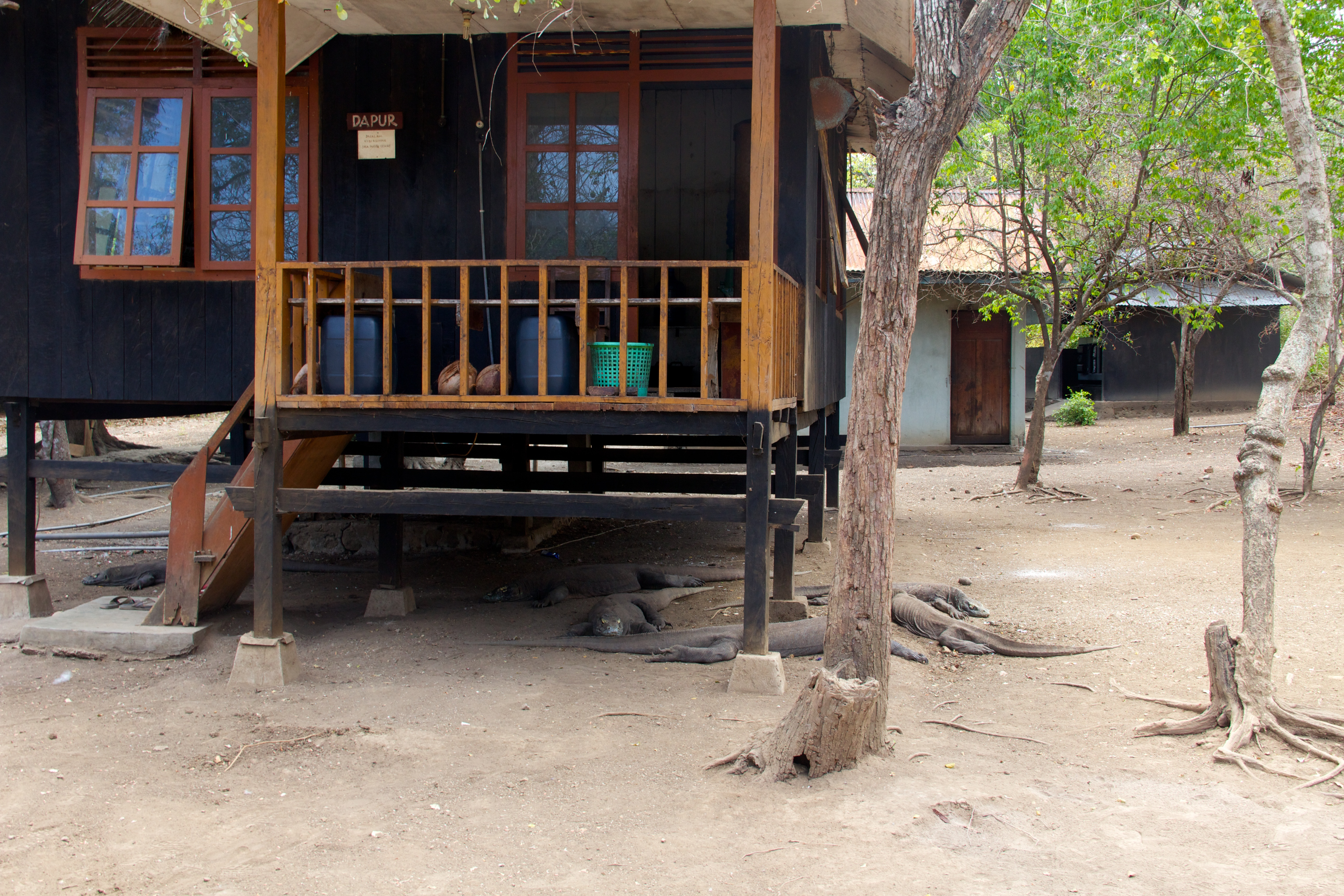 Komodo dragons beneath a building in Rinca